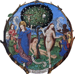 Tree of Life with Mary on one side and Eve on the other. Salzburger Missale - Bayerische Staatsbibliothek Clm 15708-15712